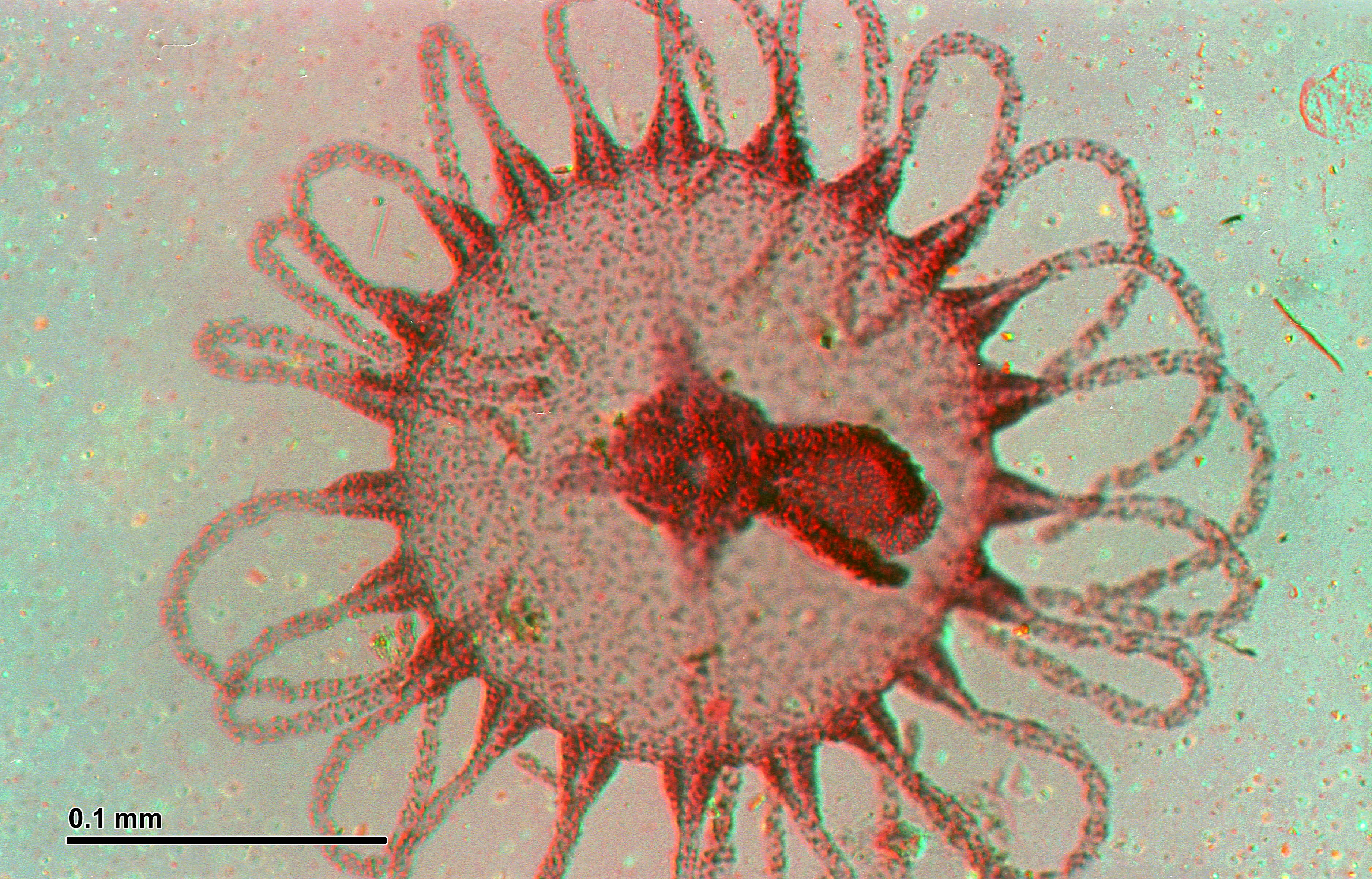 Medusa (Obelia geniculata). Optical microscopy technique: Differential interference contrast (Nomarski). Magnification: 600x (for picture width 26 cm ~ A4 format).